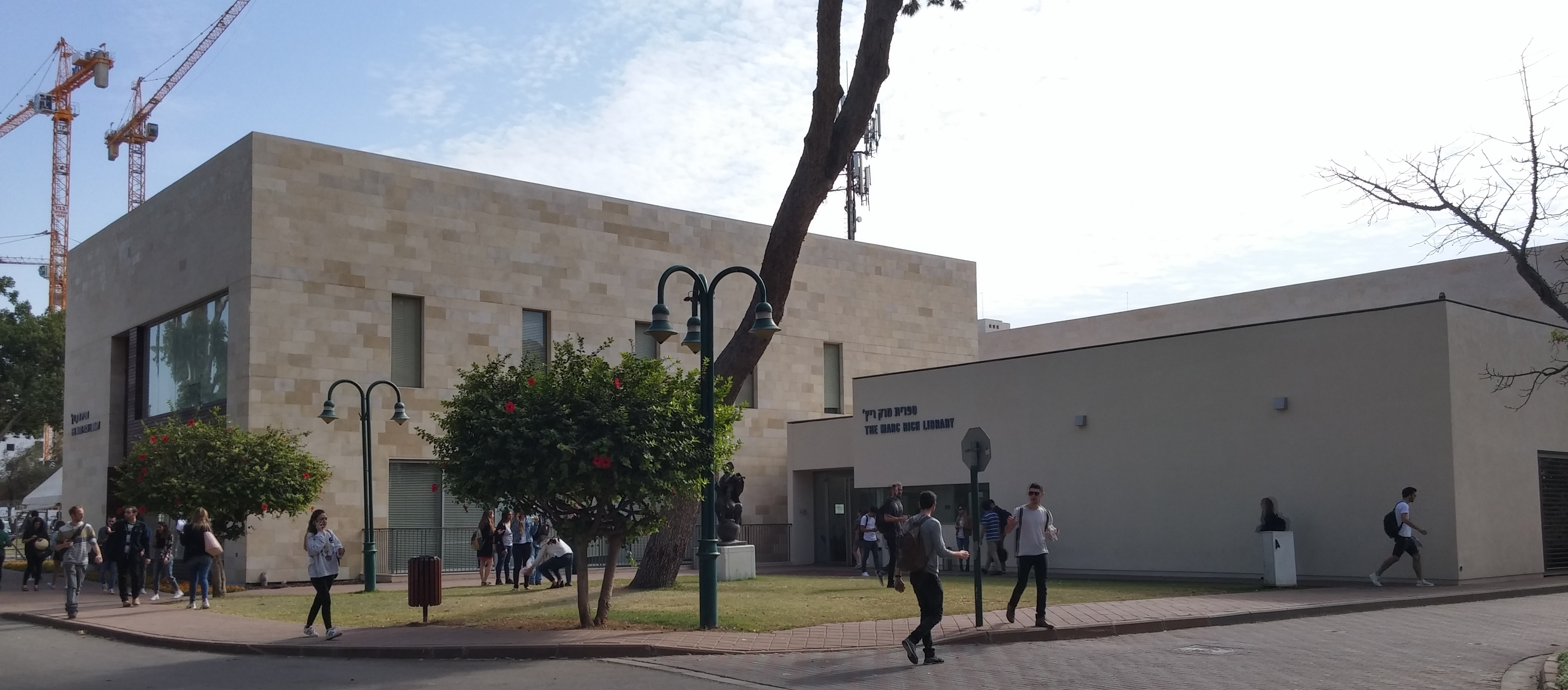 The Marc Rich Library, Interdisciplinary Center Herzliya